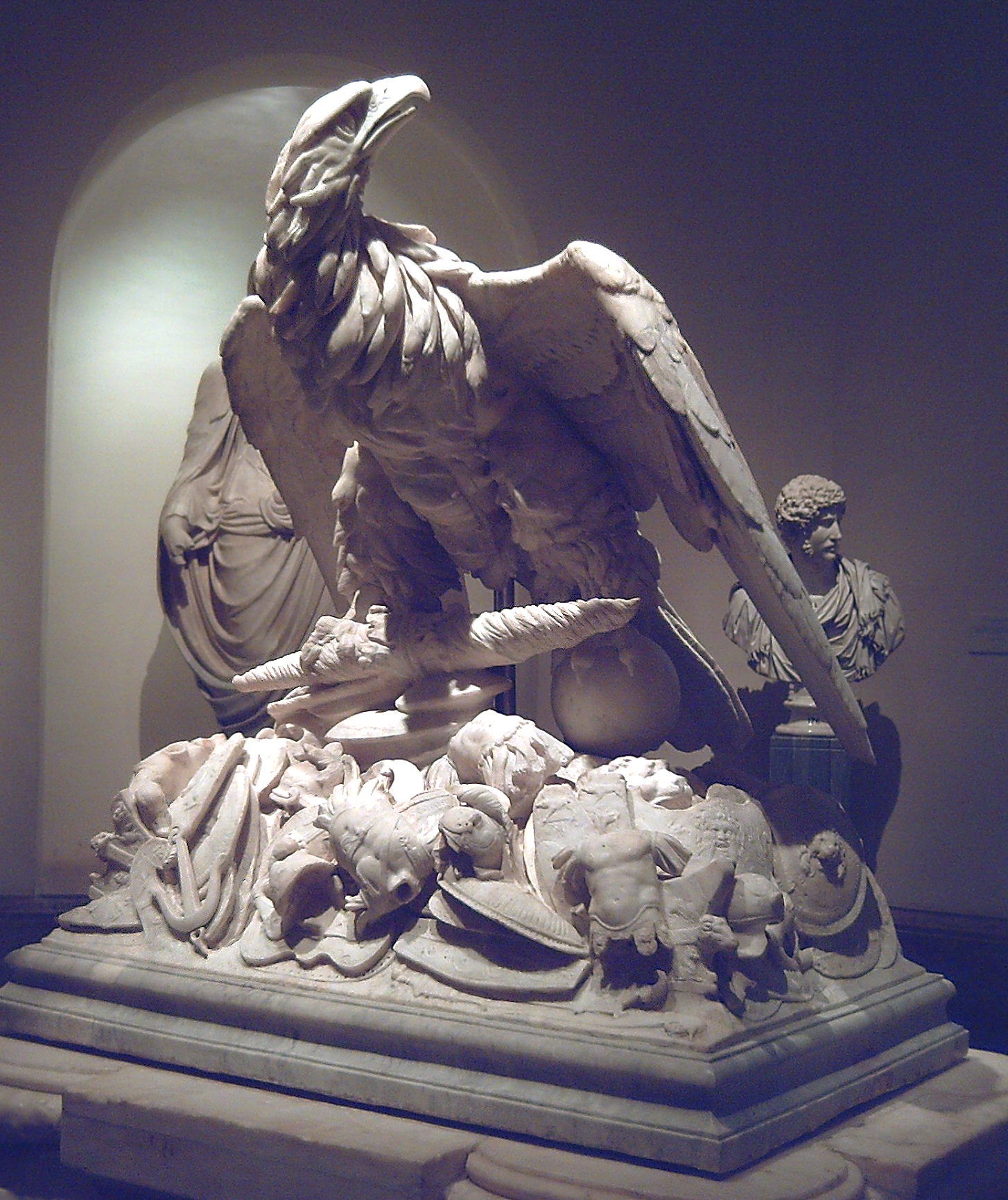 Partial view.